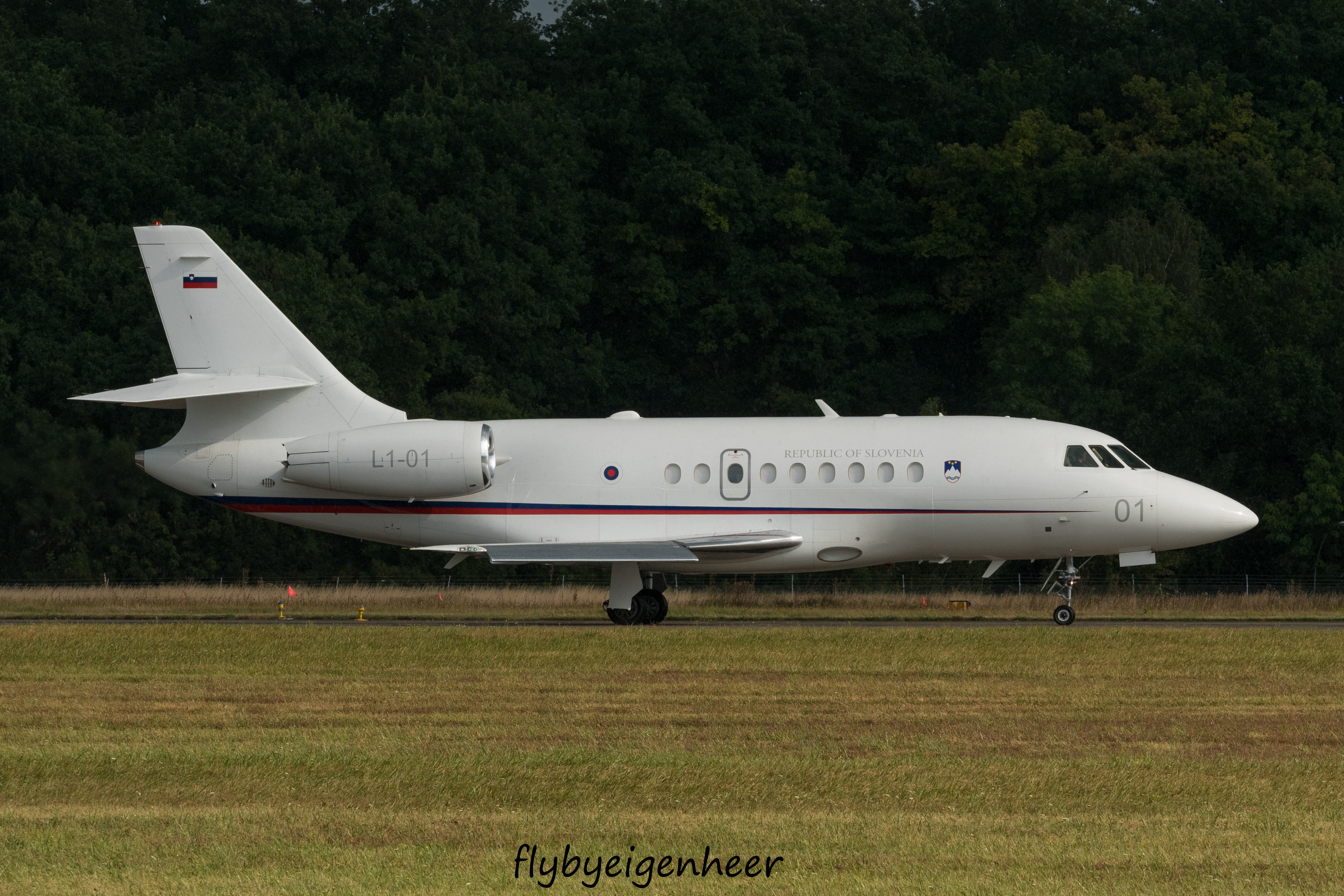 GVA 31.08.2016